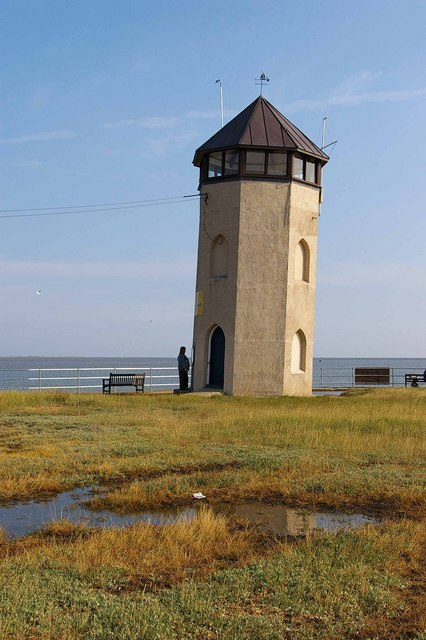 Built in 1883 by John Bateman as a folly for his daughter to recuperate from consumption. The tower is sited on Westmarsh point at the entrance to Brightlingsea Creek on the River Colne. In 2005 restored and now used for sailing race administration.